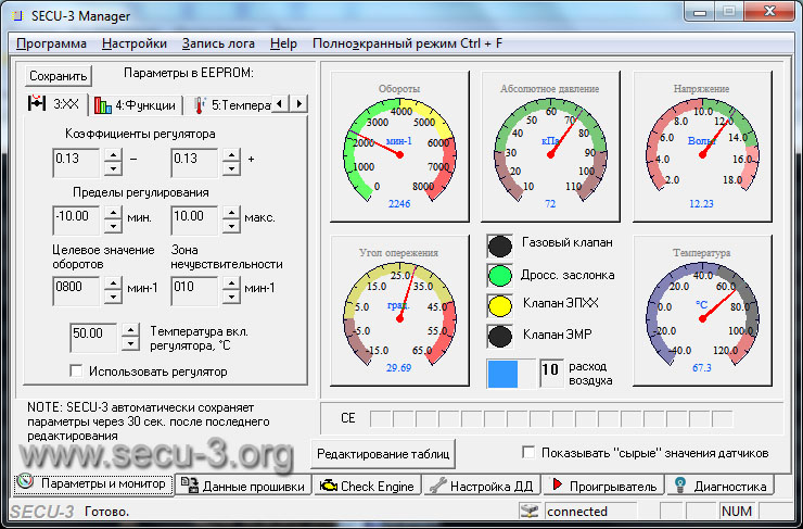 SECU-3 Manager v3.4 - first tab